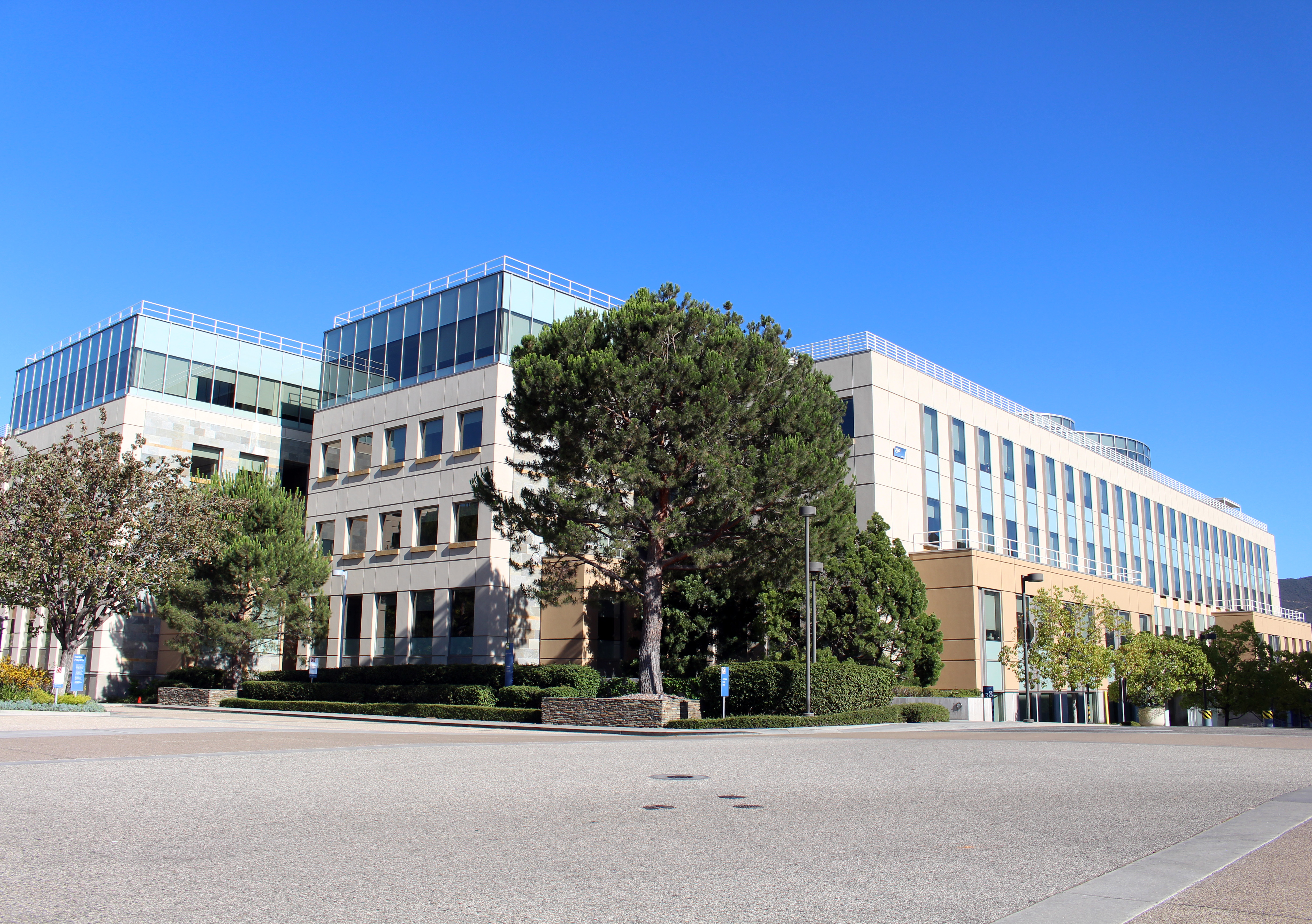 One of the many buildings at Amgen headquarters in Thousand Oaks, California. Photographed by user Coolcaesar on July 4, 2016 (replacing an older version taken on July 7, 2012).